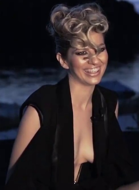 Lidia Buble.